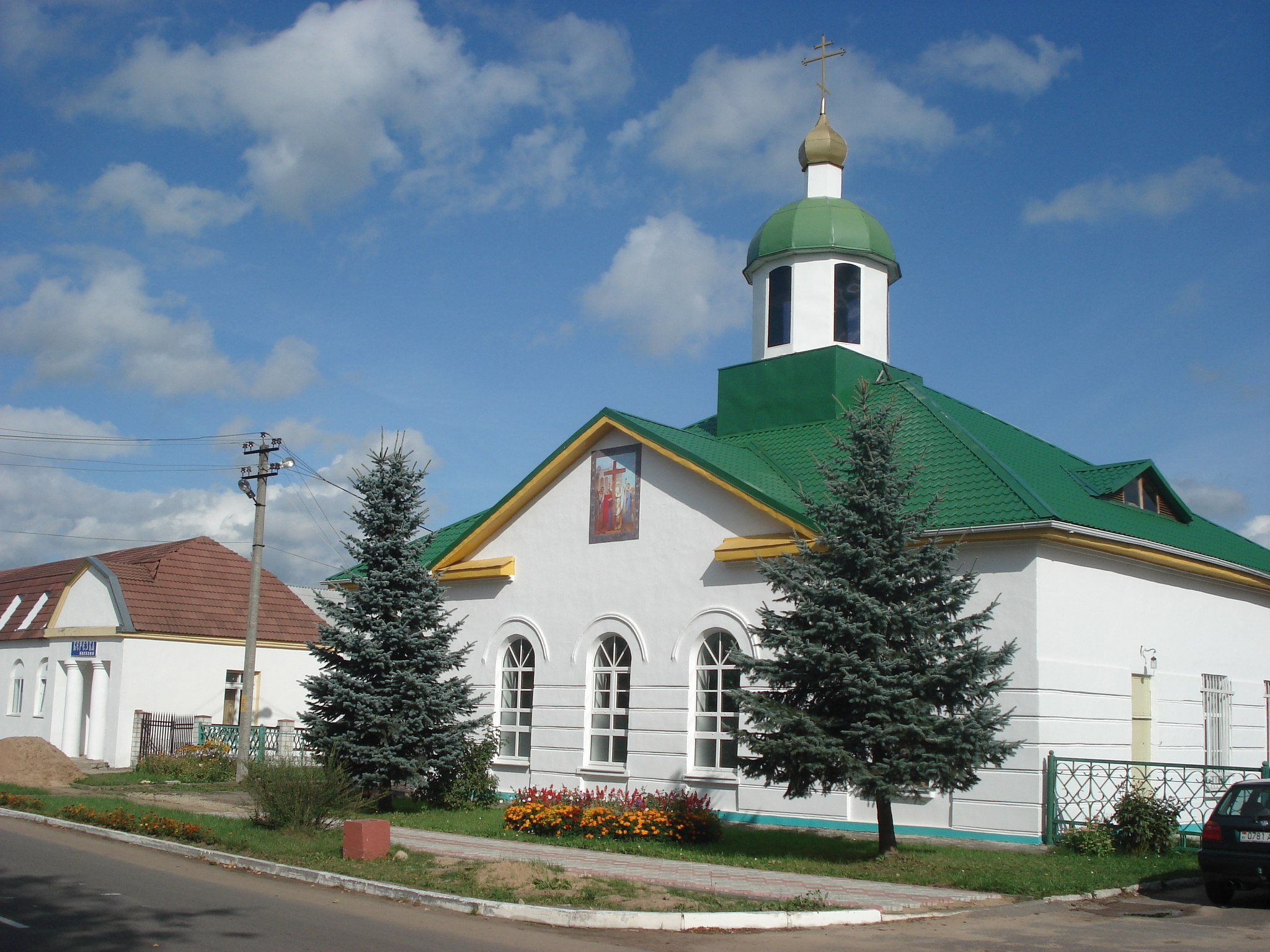 Street in LoznaLozna